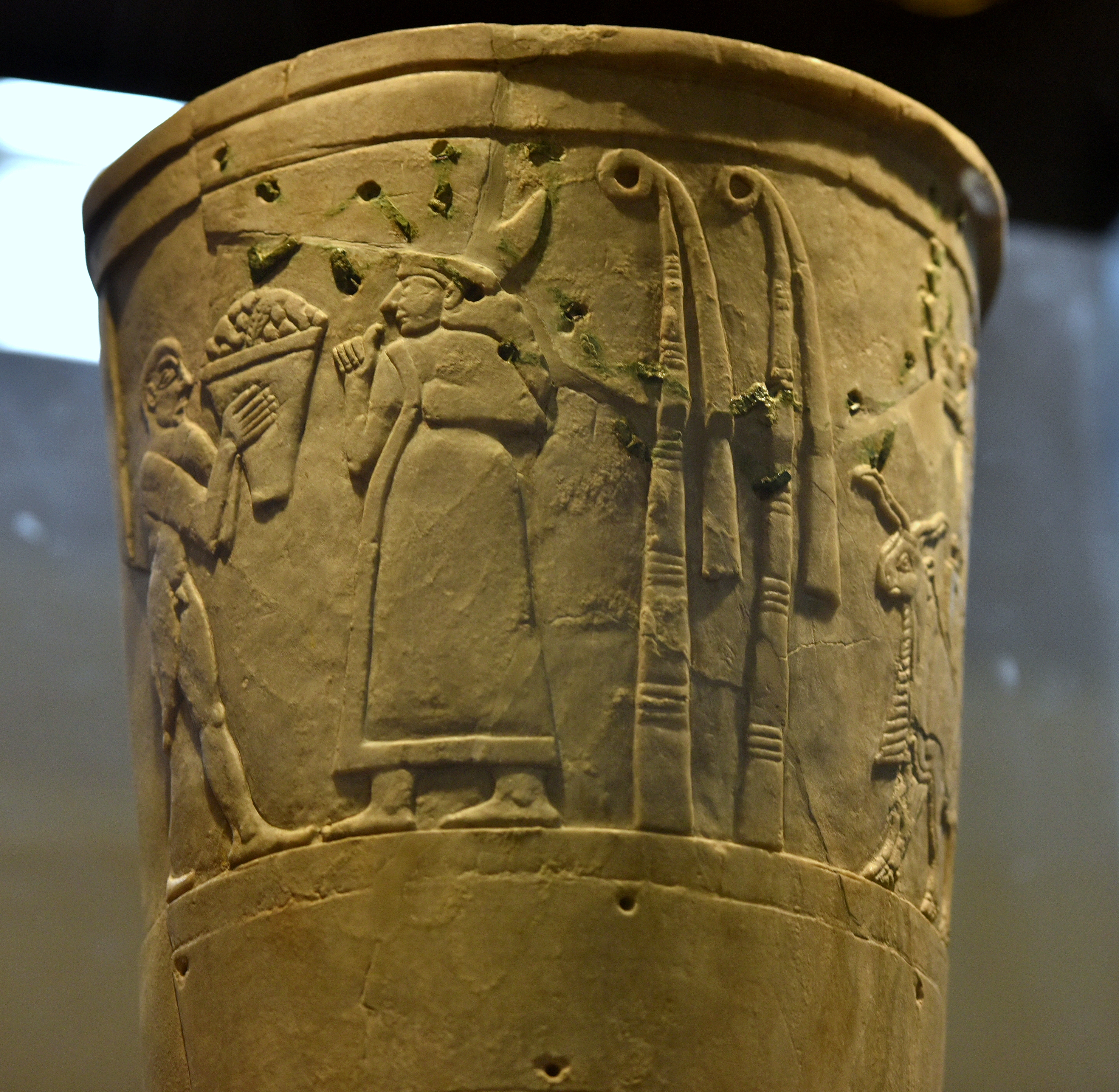 Nude male holding and presenting offerings to Inanna (Akkadian Ishtar). This is the top register of the sacred or votive vase of Warka. From Warka (ancient Uruk), southern Mesopotamia, in modern-day Iraq. Jemdet Nasr period, 3000-2900 BCE. The Iraq Museum in Baghdad.